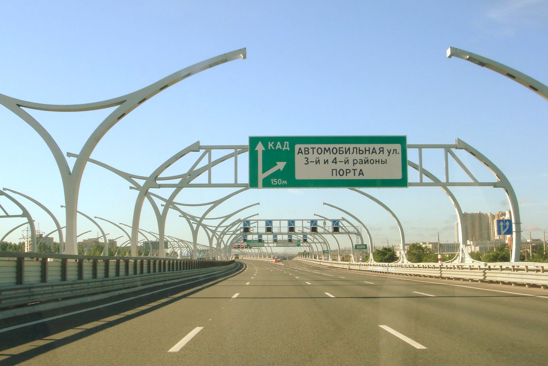 A section of Saint Petersburg's ring road bypass.